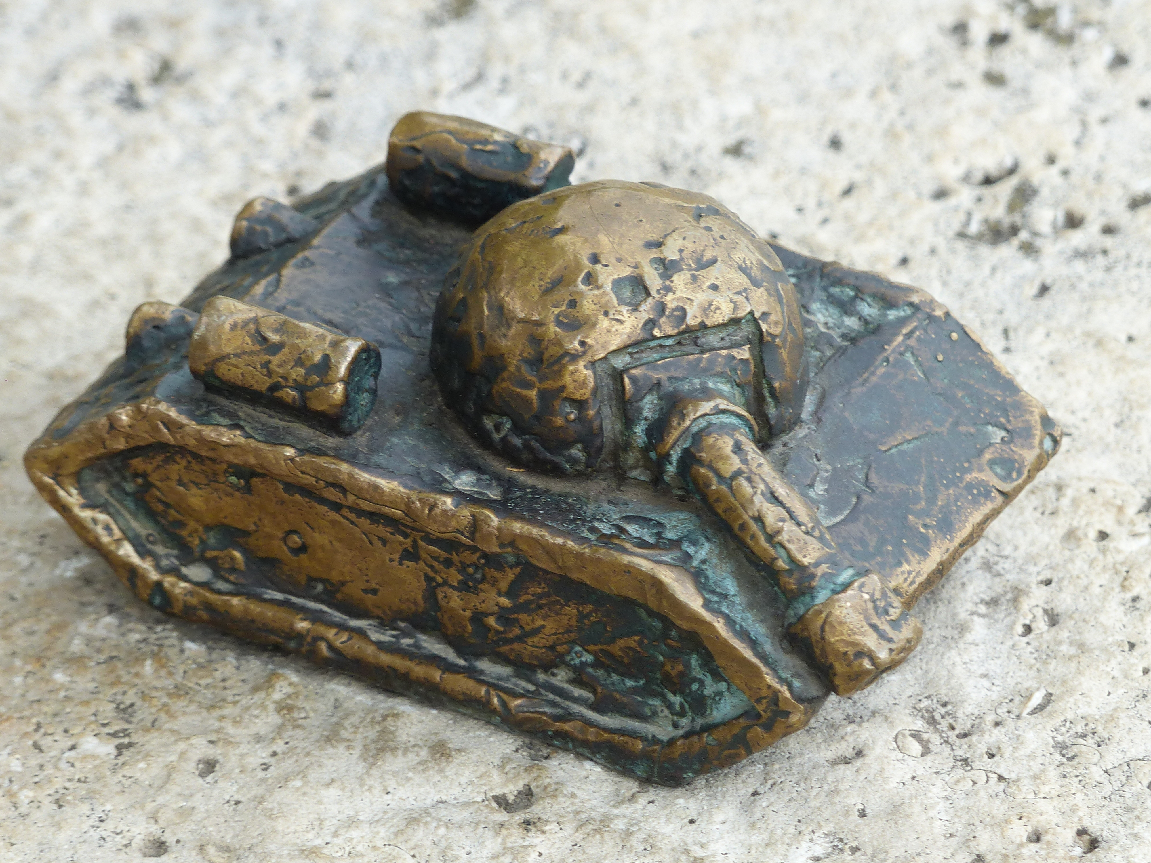 Ruszkik haza ǃ (Russians ǃ Go Home ǃ). Memorial of the 1956 Hungarian-Russian War of Independence. Mihail Kolodko ukrainen sculptor. Timestamp verified. On the bank of the Danube, opposite to the Hungarian Parliament.